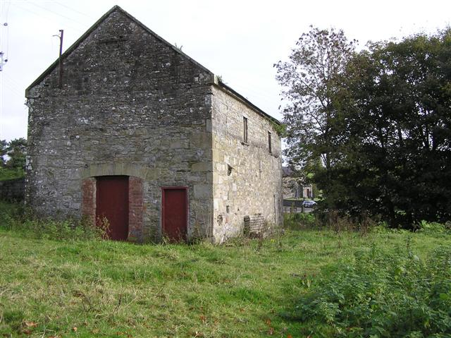 Old Mill, Ballynasaggart It was once powered by a waterwheel